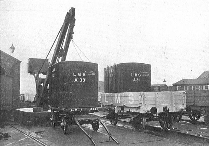 The New Freight Method: Container on Lorry and Wagon Photo: LMS Railway